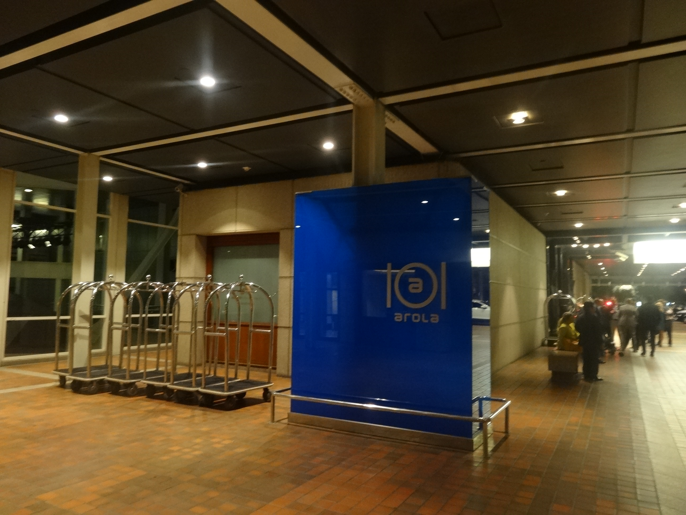 Arola Restaurant in Hotel Arts, Barcelona. Chef Sergi Arola.